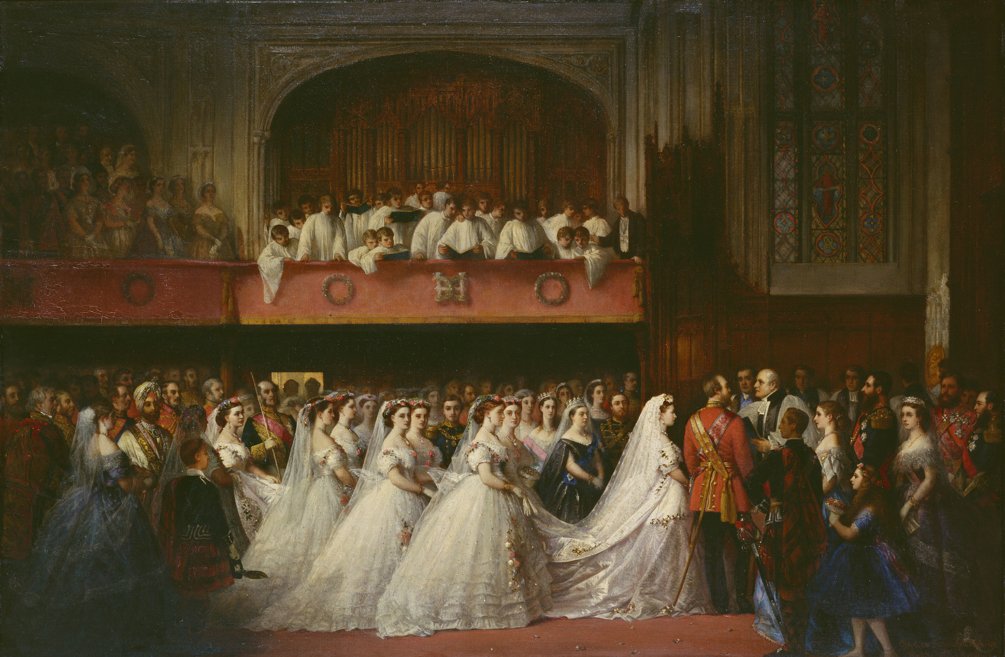 The Marriage of Princess Helena